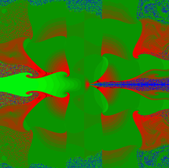 A virtual integral extracted from a self-generating infinite product.